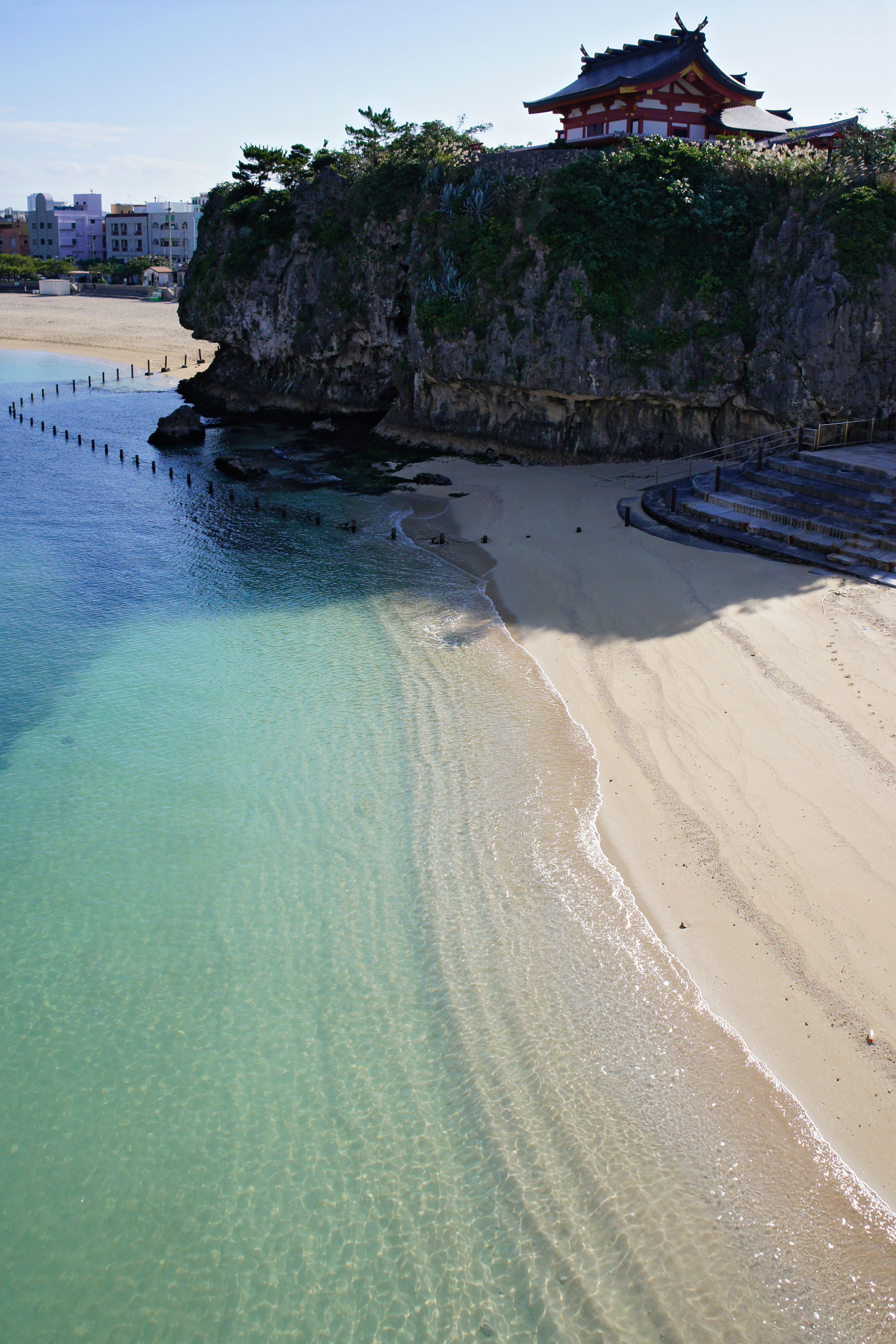 Naminoue Shrine and Naminoue Beach in Naha, Okinawa prefecture, Japan